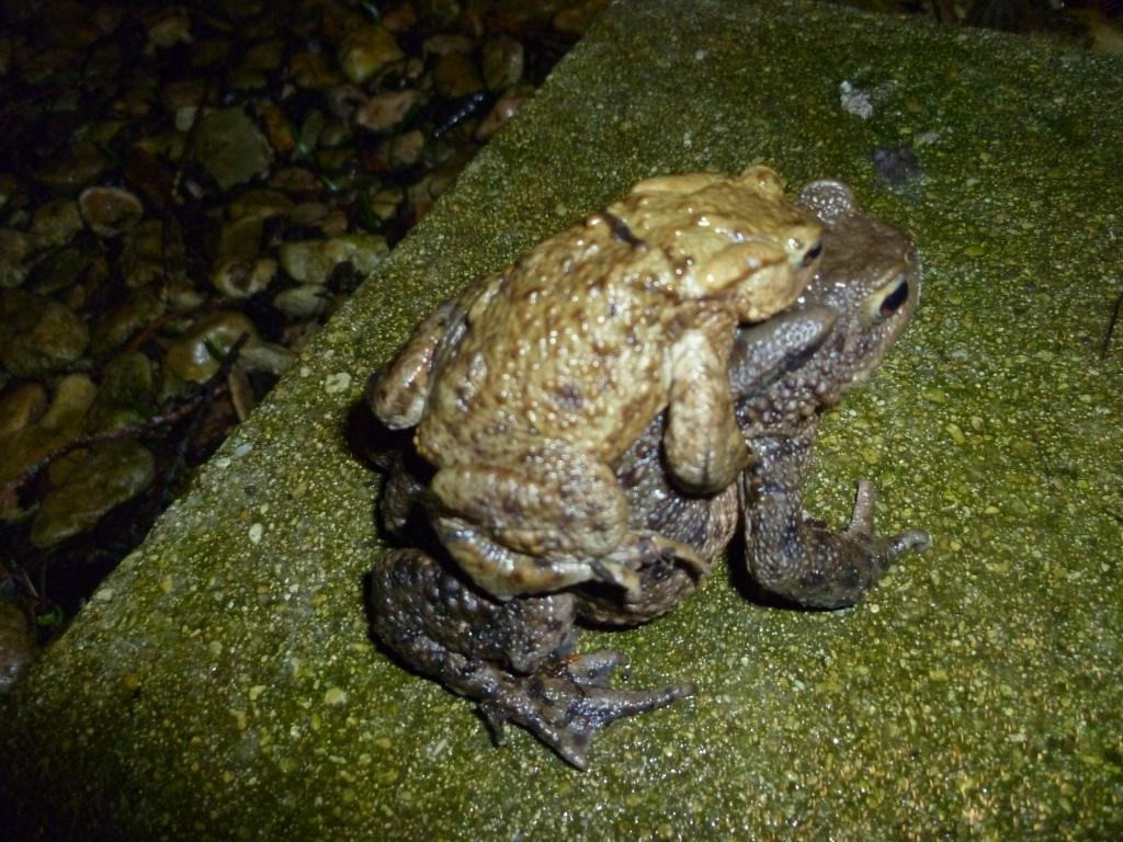 Male and female Common Toad (Bufo bufo) (paired up) on 2013 migration for spawning to Dowdeswell Reservoir, Gloucestershire, England. Photo taken south side of A40 and toads taken across main road by volunteer patrollers.